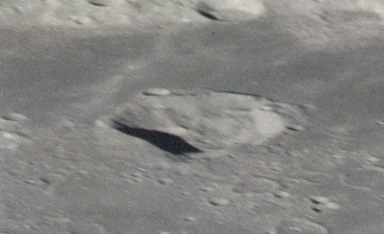 Oblique view of Titov, on the moon.